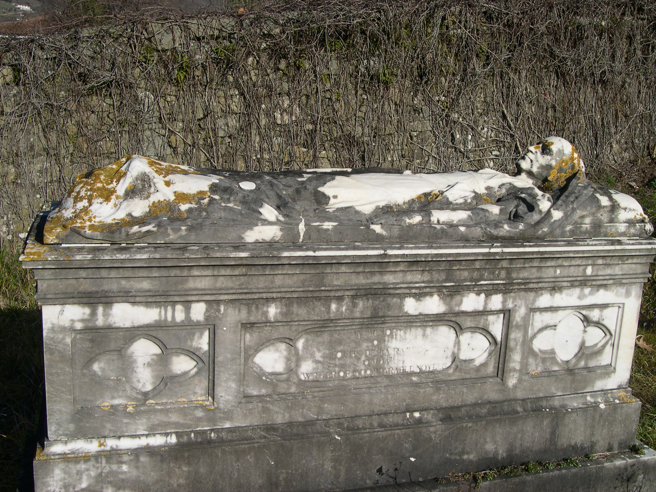 Tomb of the writer Ouida